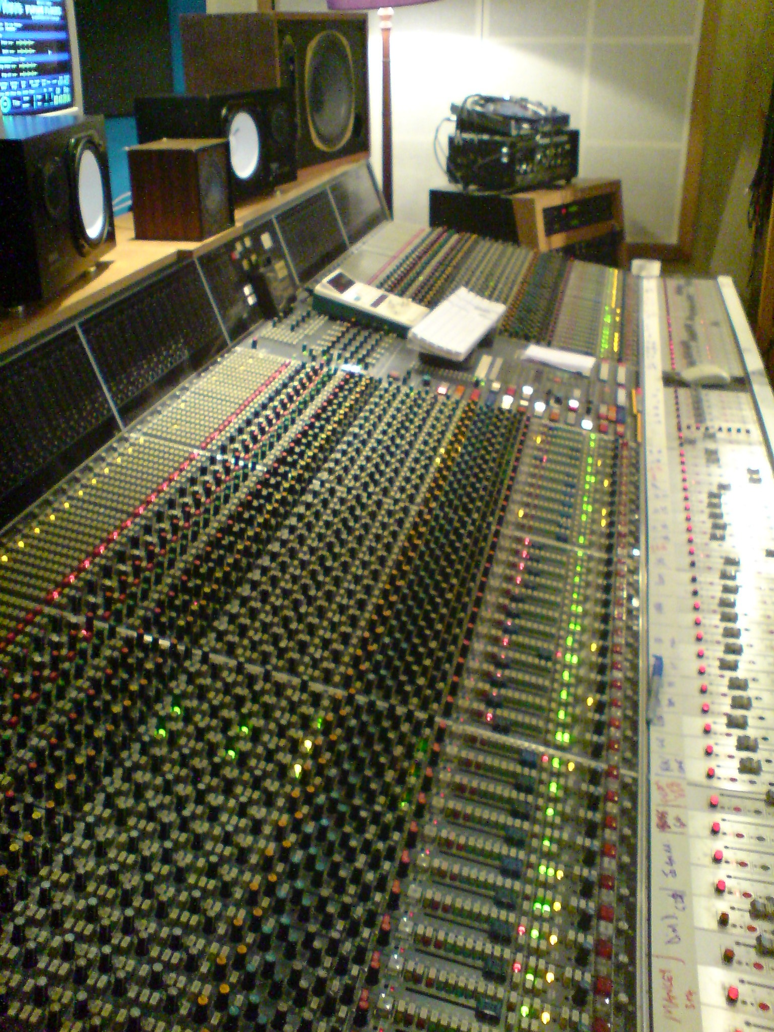 Neve VR60 - 60 Channels with full Recall and Flying Faders (v3.00) sweet mixing desk. About 60 channels!